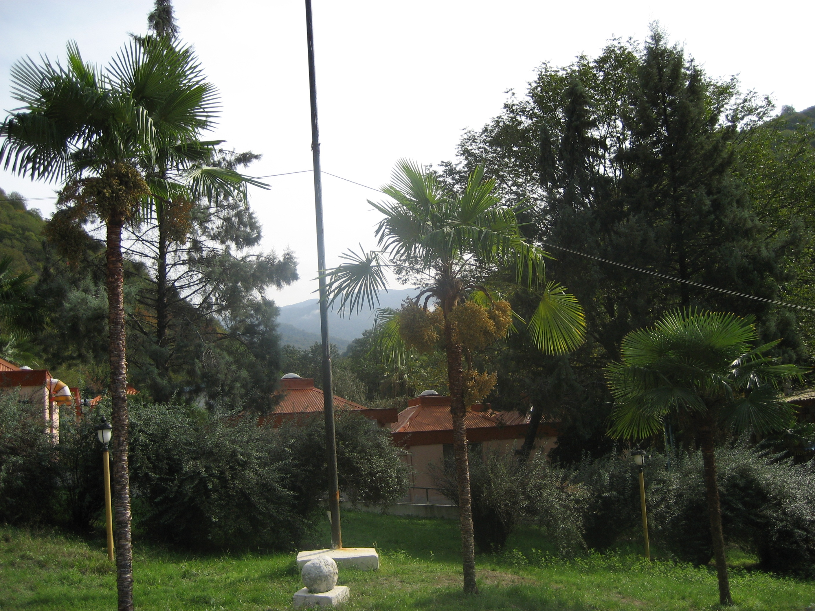 Naharkhoran Gorgan, Golestan Province of Iran.